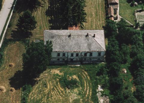 Nagyar, Hungary, aerialphotography